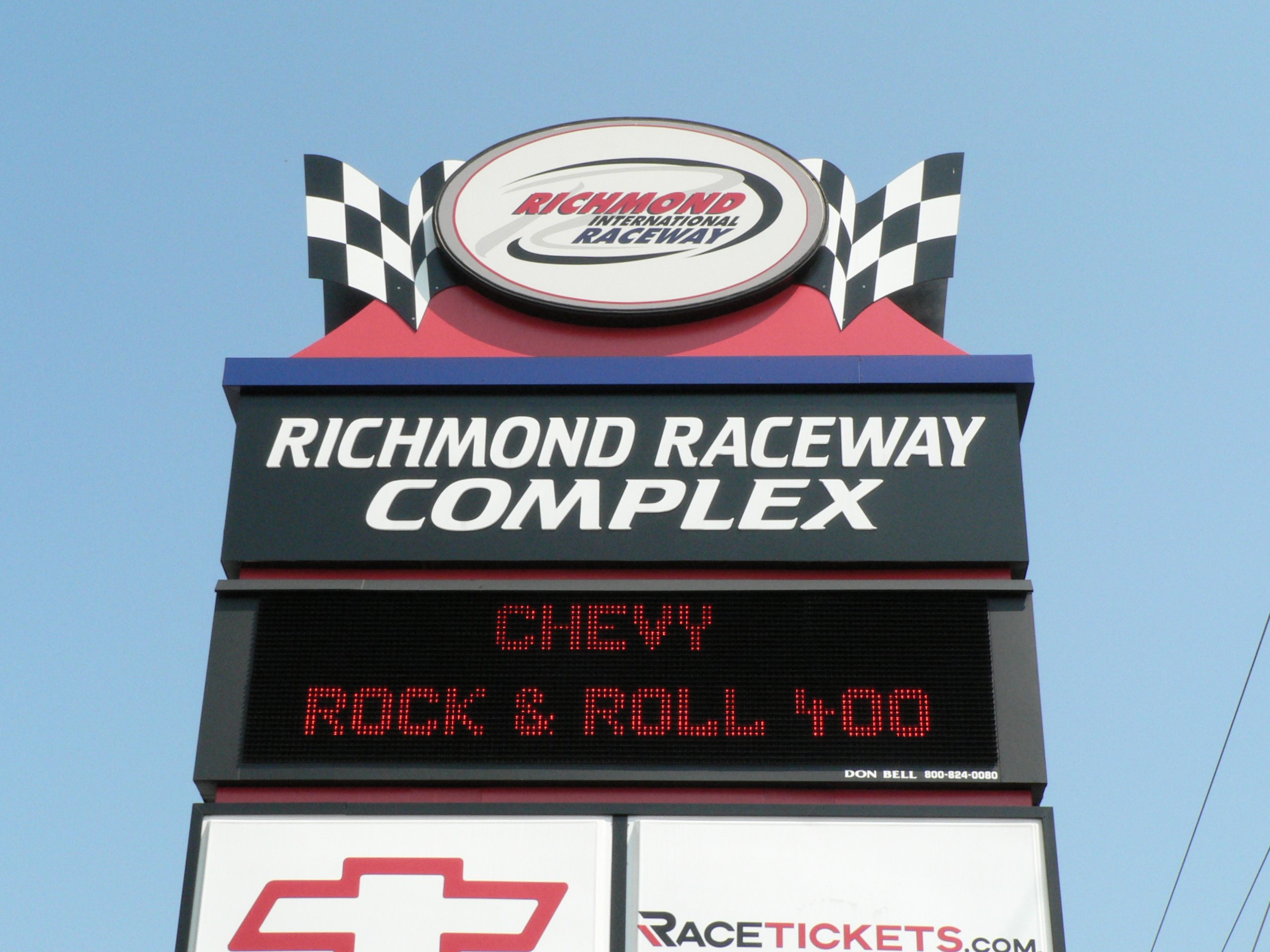 The sign for Richmond International Raceway, a NASCAR circuit.